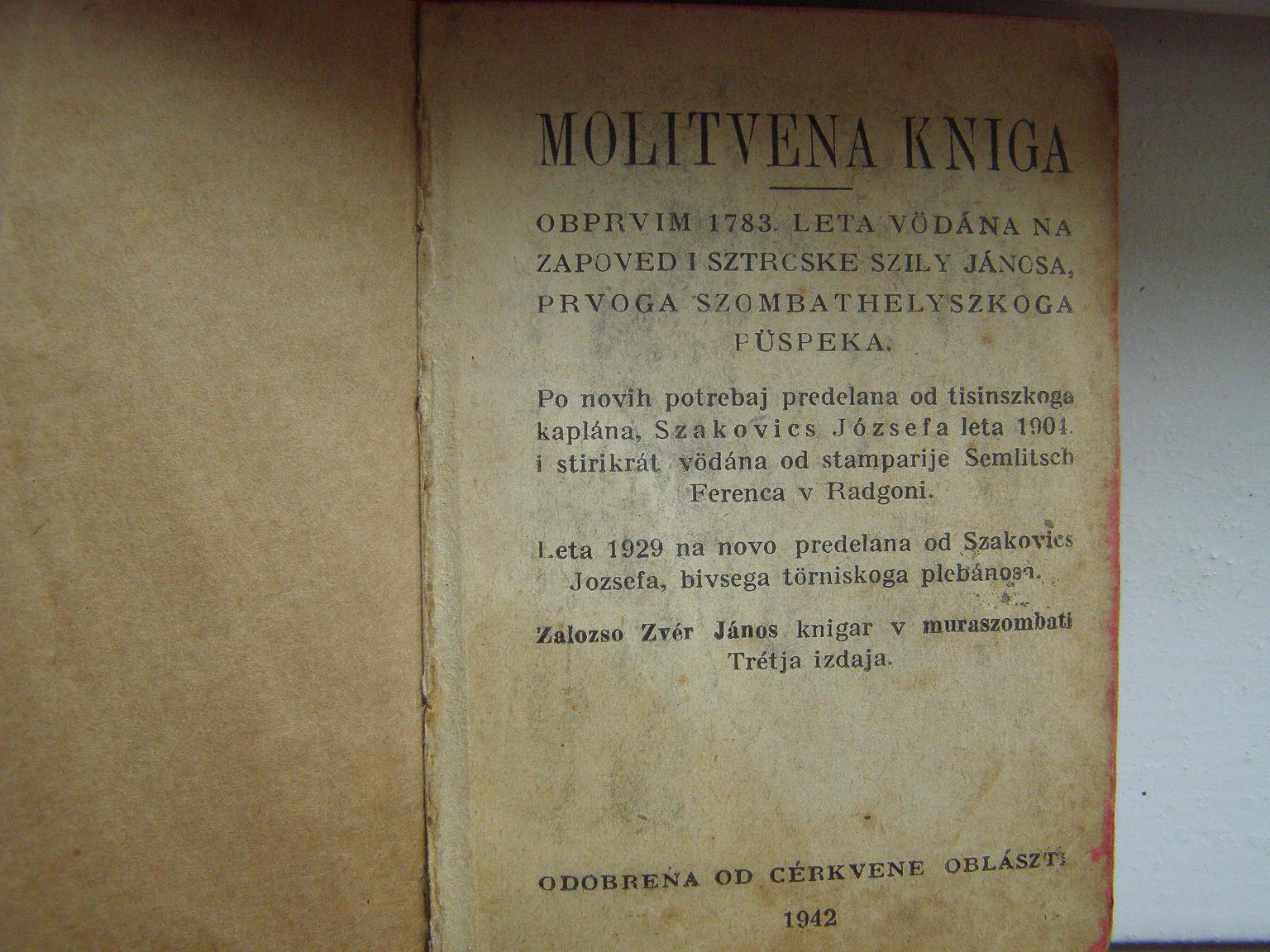 József Szakovics's (1874-1930) prekmurian prayer-book in 1942